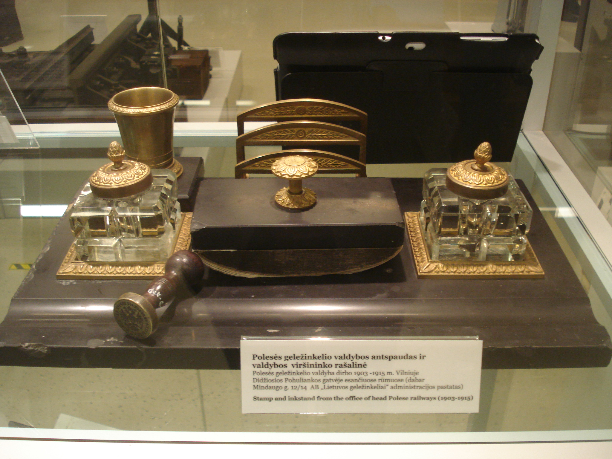 Lithuanian Railway Museum. Vilnius